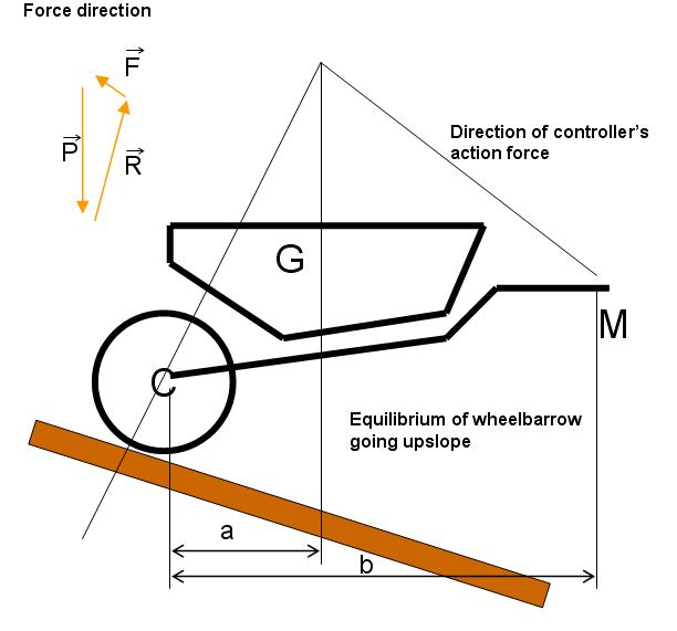 force apply on wheelbarrow when going upslope